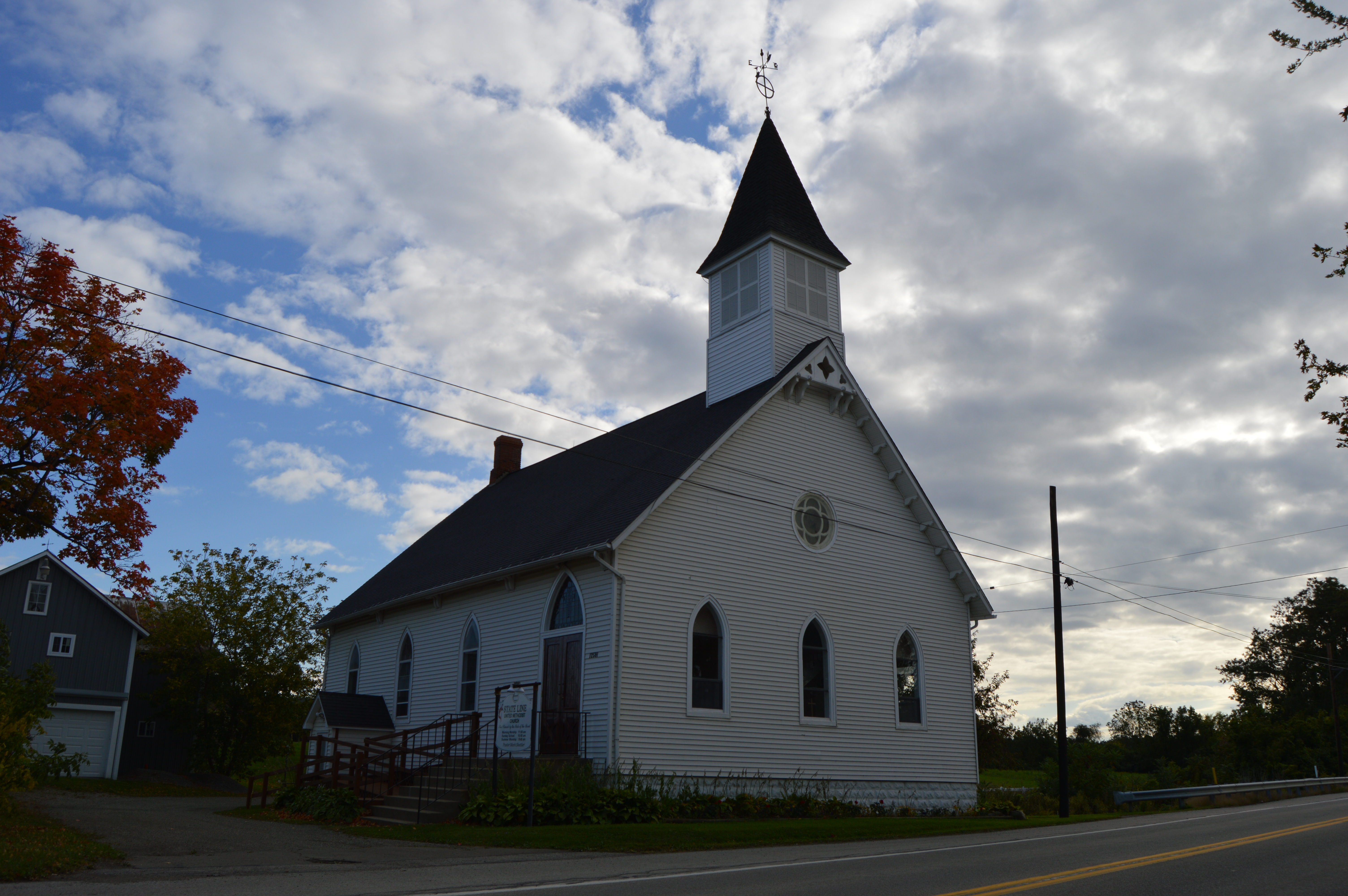 Front of the State Line United Methodist Church, located on the southern side of U.S. Route 20 on the Erie County, Pennsylvania side of the border with New York. Photo is taken from New York.